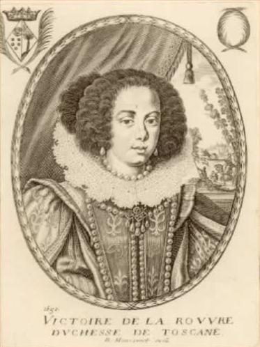 Vittoria della Rovere, Grand Duchess of Tuscany in 1650